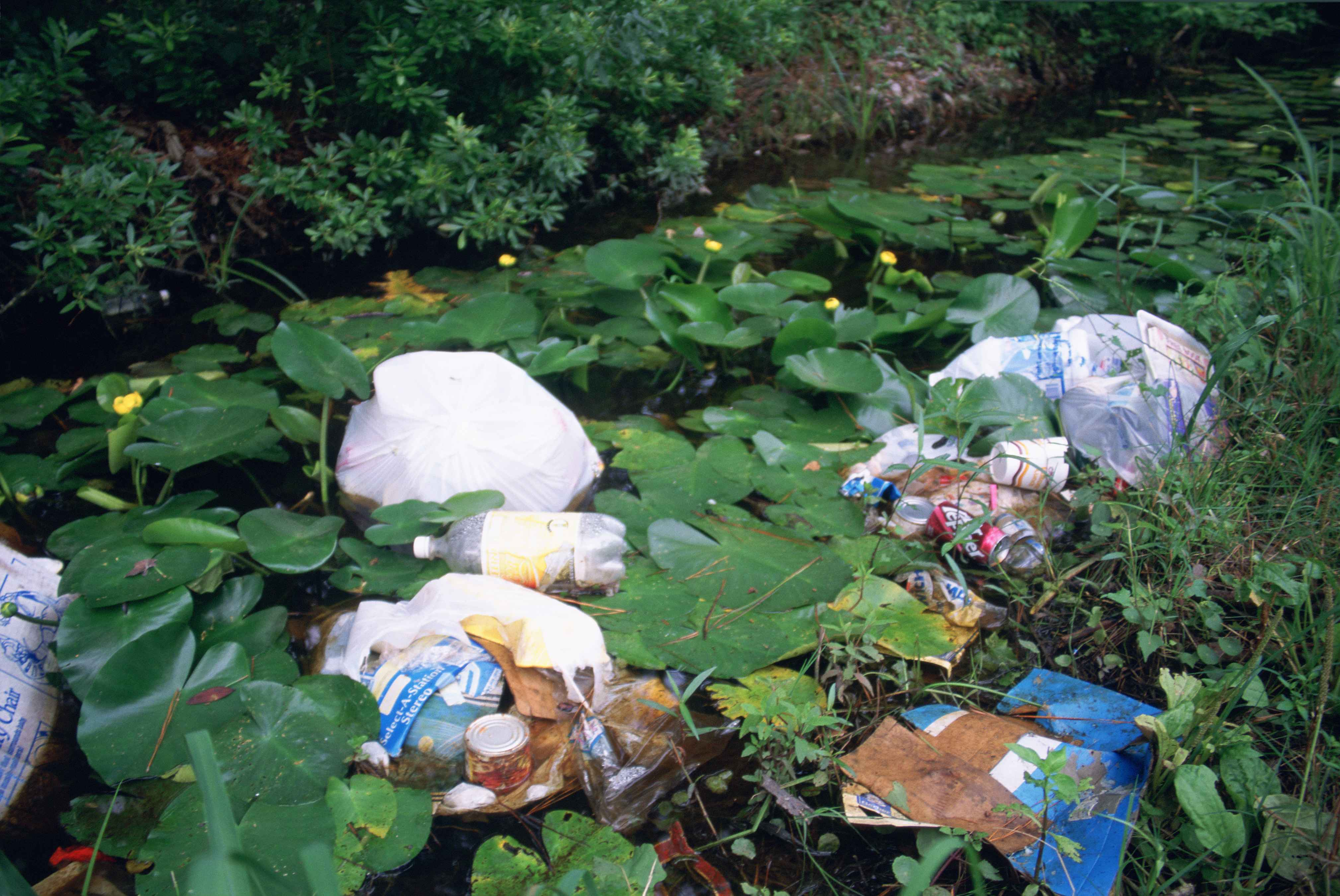 Image title: Litter and garbage dumped in wetland area among water lilies and marsh plants Image from Public domain images website